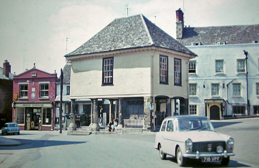 Faringdon: Old Town Hall and Old Crown Inn, 1962. Not a lot different 50 years later. NOT my car in foreground